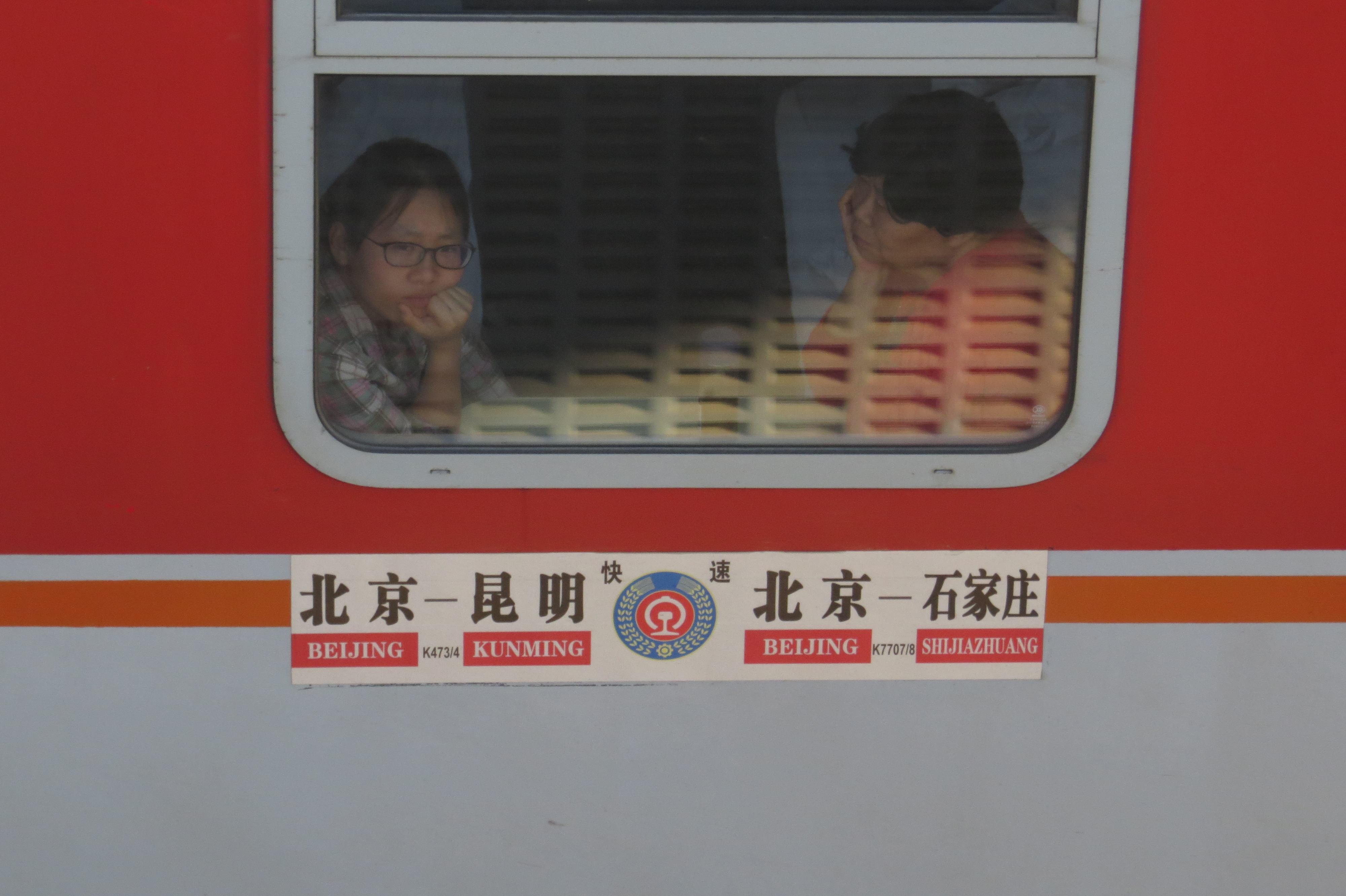 Just another Beijing-Kunming train.